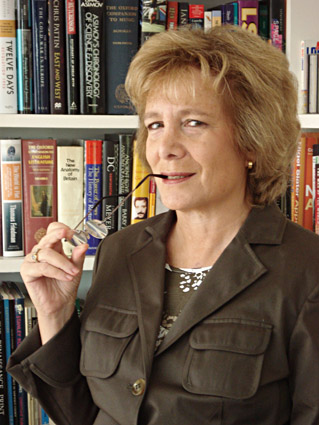 Photo of Frances Pinter in her library.